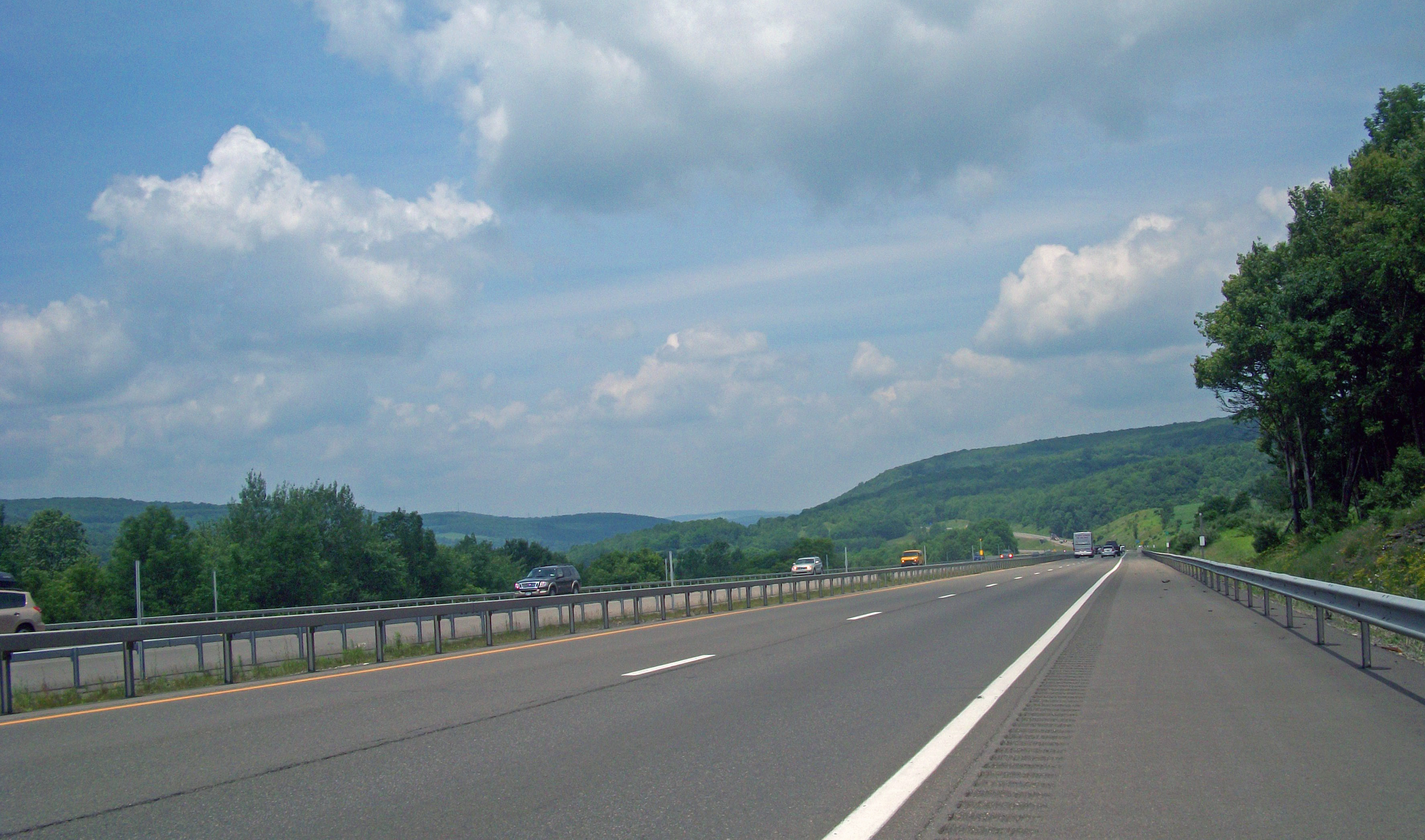 View north along Interstate 81 in southern Cortland County, NY, USA